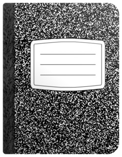 Picture of a generic composition book, with a marbled black and white cover.